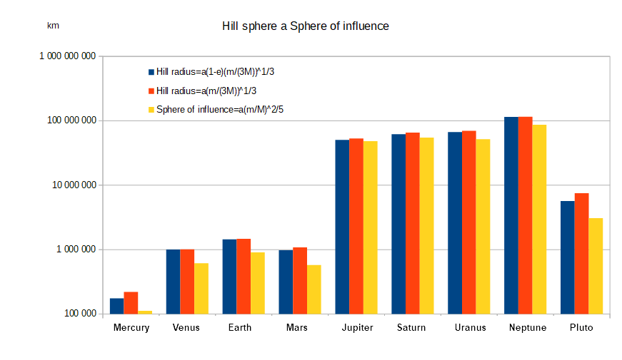 Hill sphere and Sphere of influence for planets in Solar System and Pluto